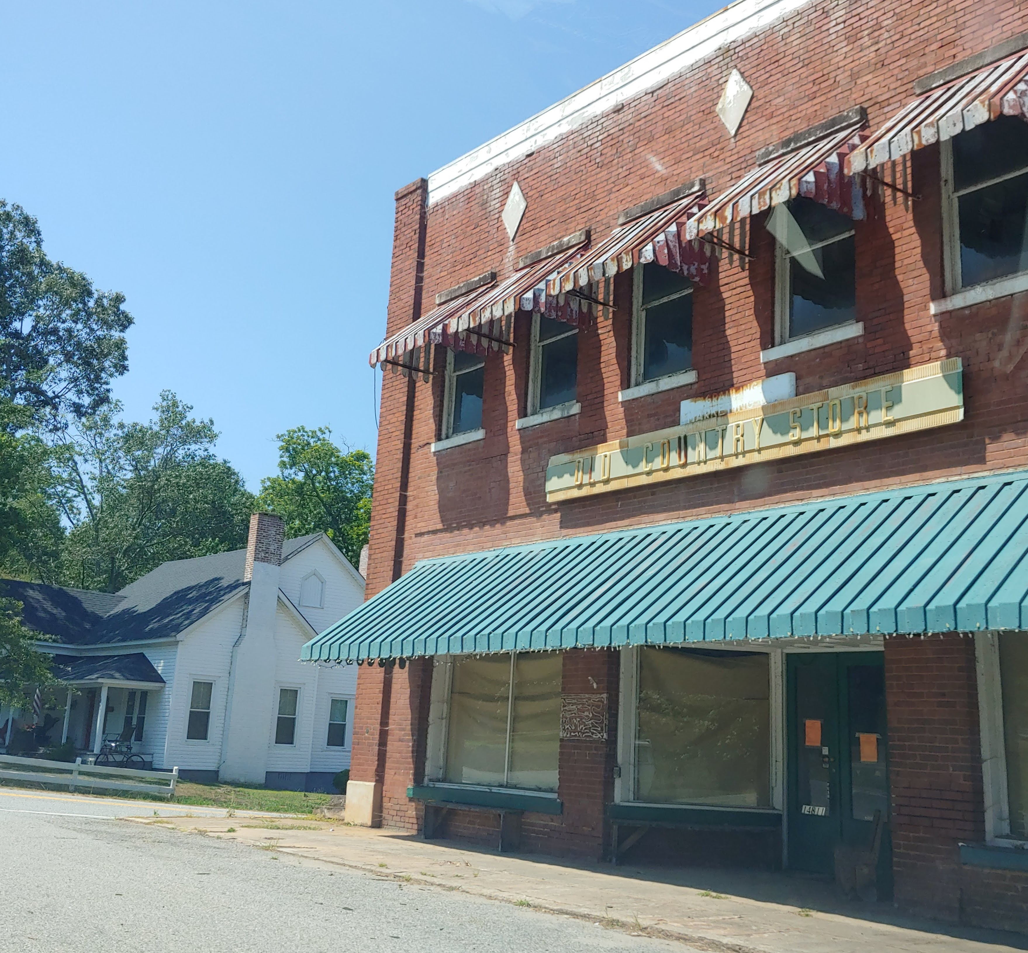 Old Country Store in Gramling, South Carolina on US Highway 176